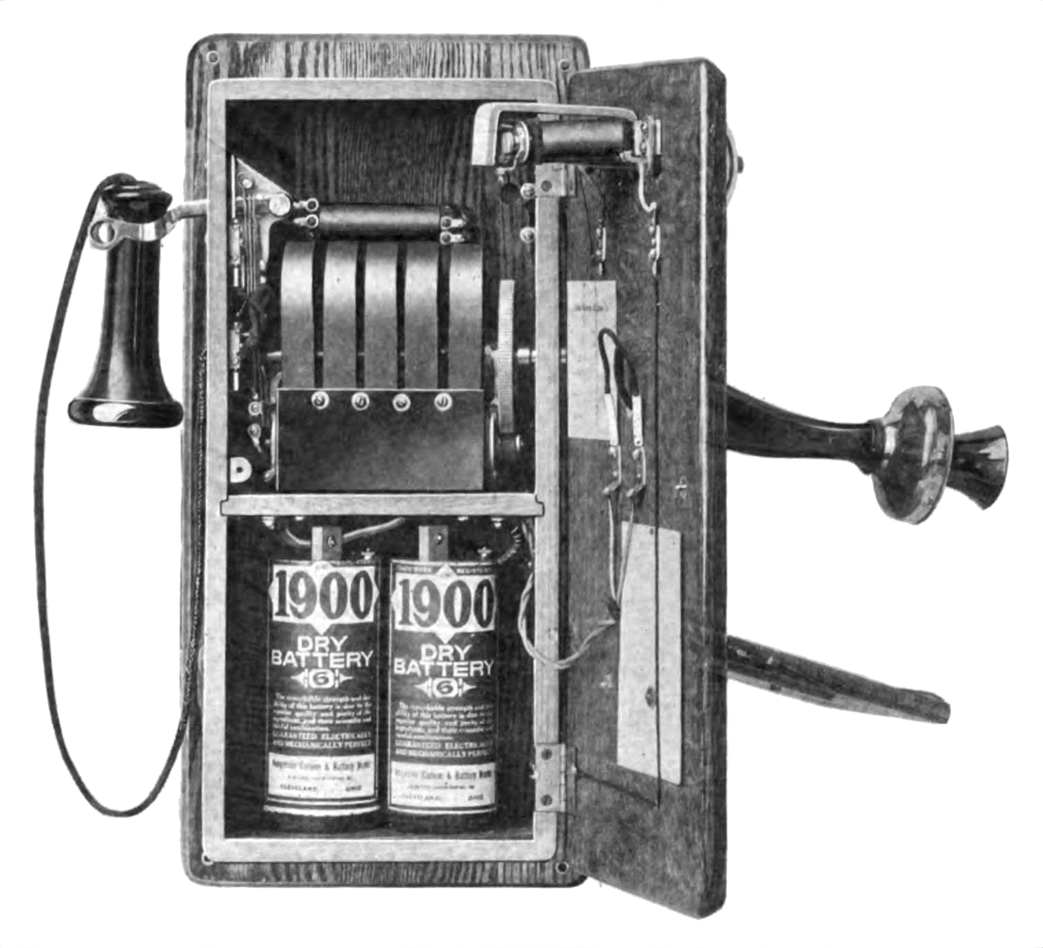 Early magneto wall telephone manufactured in 1917 by Julius Andrae and Sons Co., Milwaukee, Wisconsin, USA from an advertisement in a telephone trade magazine. Shown with case open revealing internal parts. Magneto for ringer is seen above the cylindrical batteries. Magneto telephones were "local battery" instruments; power for the transmitter was provided by dry cell batteries in each telephone, which had to be replaced periodically. These were superseded by modern "central battery" systems, in which all the power for the phone was provided by the local switching office. Alterations to image: Cropped out surrounding advertising copy and partially removed aliasing artifacts (crosshatched lines) added by scanning of halftone photo, using Gimp FFT filter.